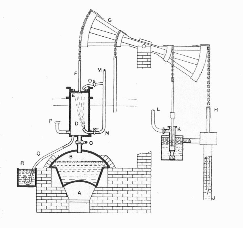 ABoiler furnaceBSteam boilerCSteam valveDEngine cylinderEPistonFPiston-rodGBeamHHeavy pump-rodJMine pumpKPump for condensing waterLPipe leading to condensing water tankMCondensing water pipeNInjection cock to cylinderOWater-tap to top of pistonPRelief or snifting valveQEduction pipe with non-return valve at endRFeed-water tank